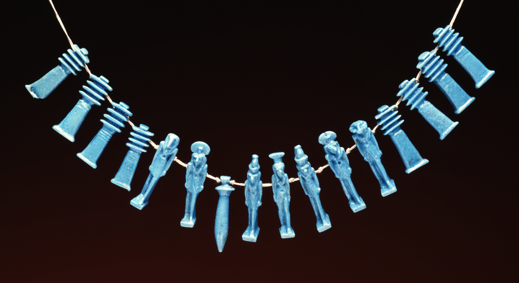 This group of amulets were strung in modern times to a necklace that follows the order of an amulet necklace found on a mummy in the Faiyum. On this string are 8 "djed" pillars (symbols of Osiris), Thoth, figures of Horus, two figures of Re, a "wadj" (papyrus scepter, symbolizing resurrection), Nephthys, and Khnum. The combination of amulets without an amulet of Isis and only one "wadj" makes it likely that these amulets come from a larger context such as a mummy net or amulet ensemble of a deceased, and not from a single necklace.